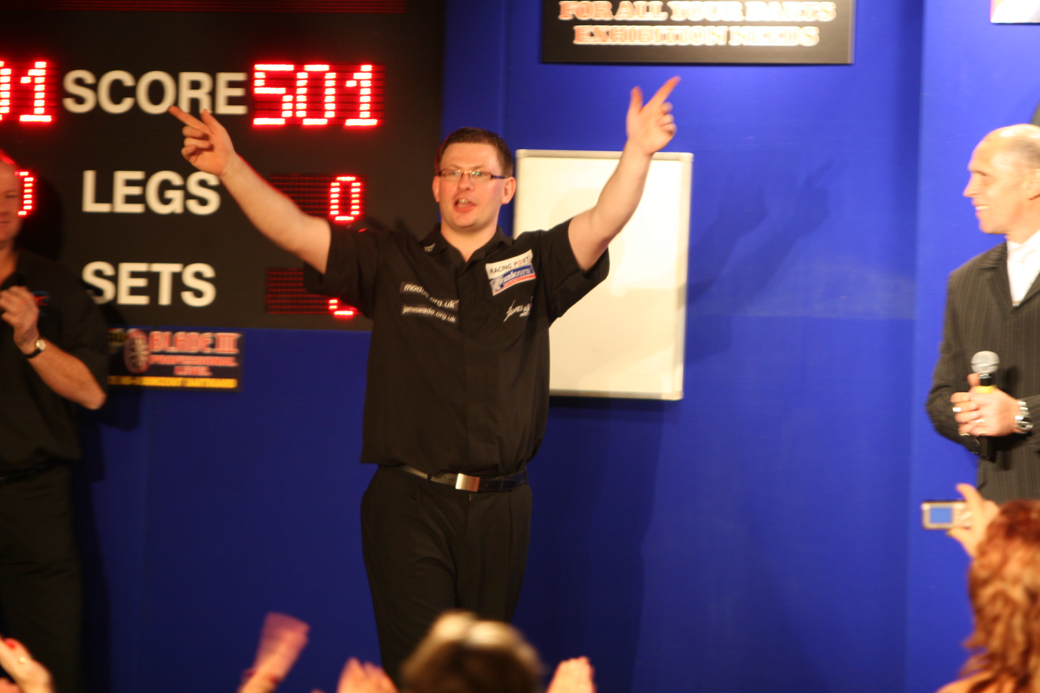 James Wade the darts player